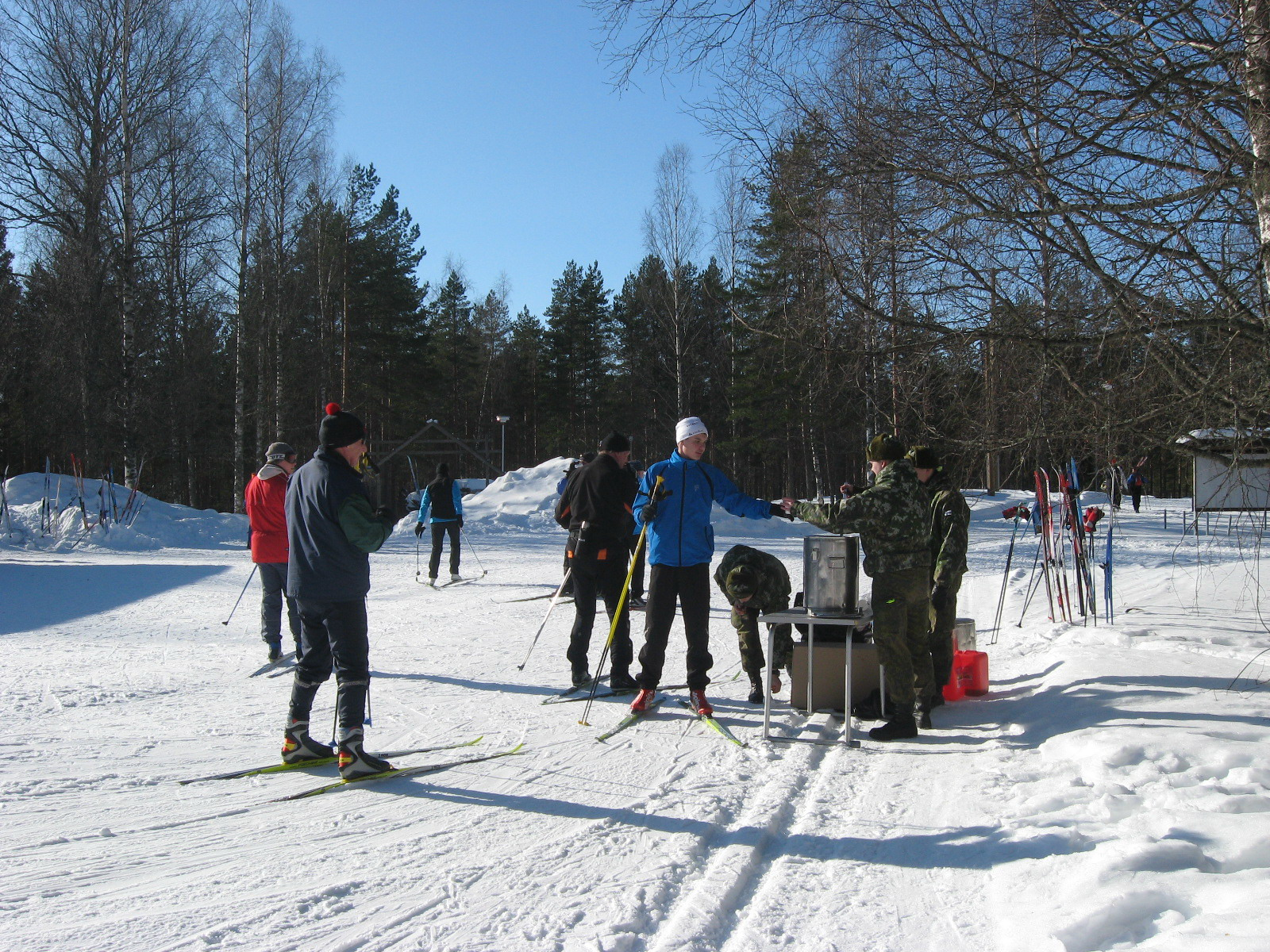 Cross-country skiers having a brake, during Huovinretki ski trip, in Säkylä, Finland.